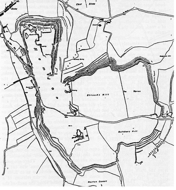 Map of earthworks at Ham Hill, Somerset, England.